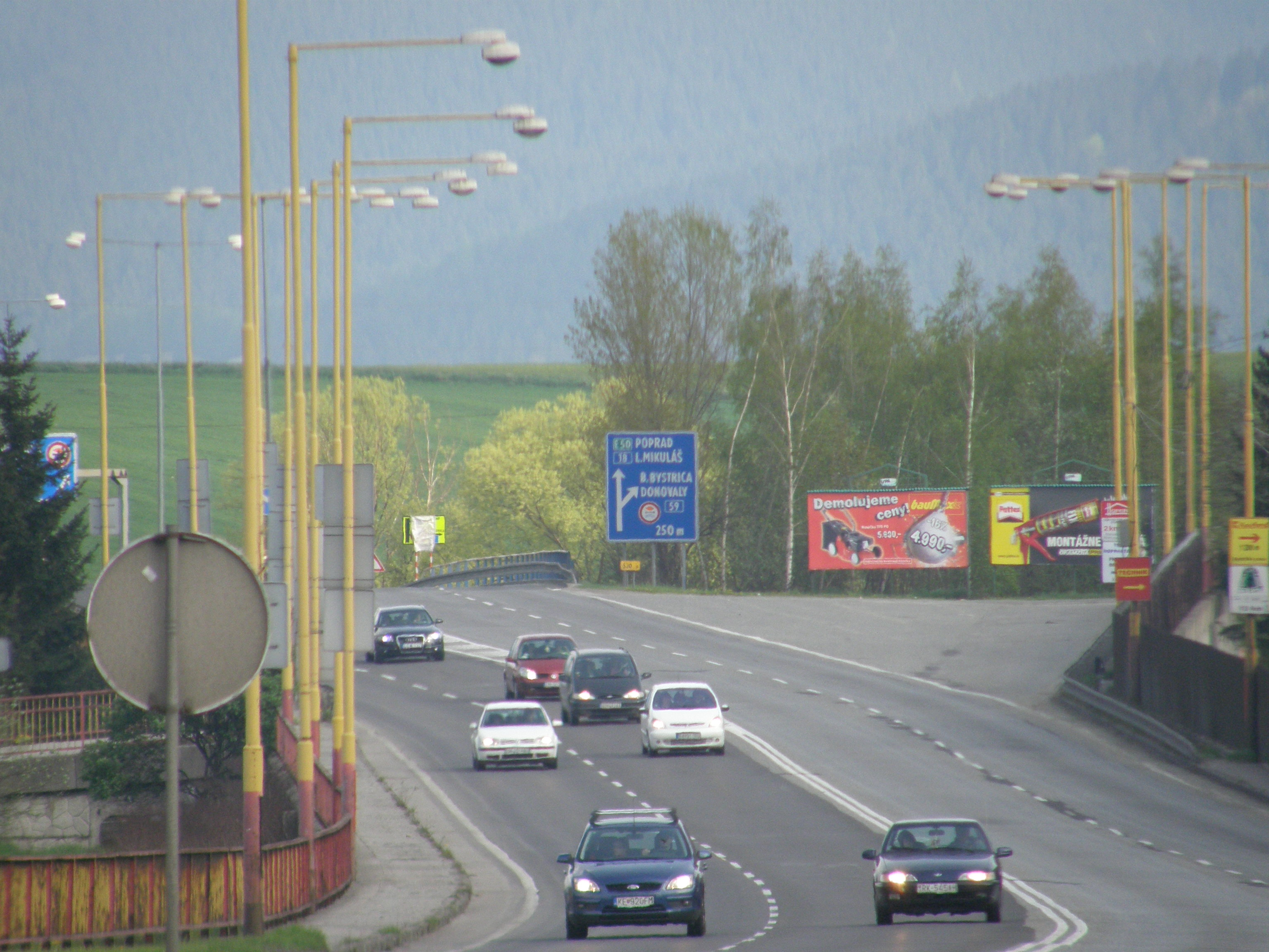 E50 – European Road in Slovakia (photo in Ružomberok city)